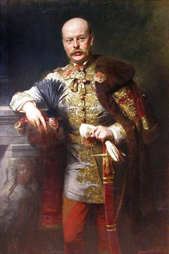 Nikolaus IV, prince Esterházy de Galantha